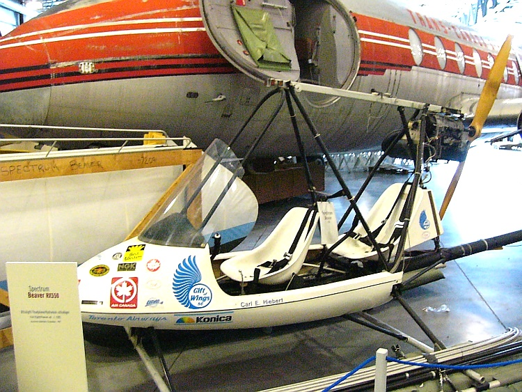 Spectrum Beaver RX 550 C-IGOW in the Canada Aviation Museum. This aircraft was flown by paraplegic pilot Carl Hiebert during his 1986 cross-Canada flight.